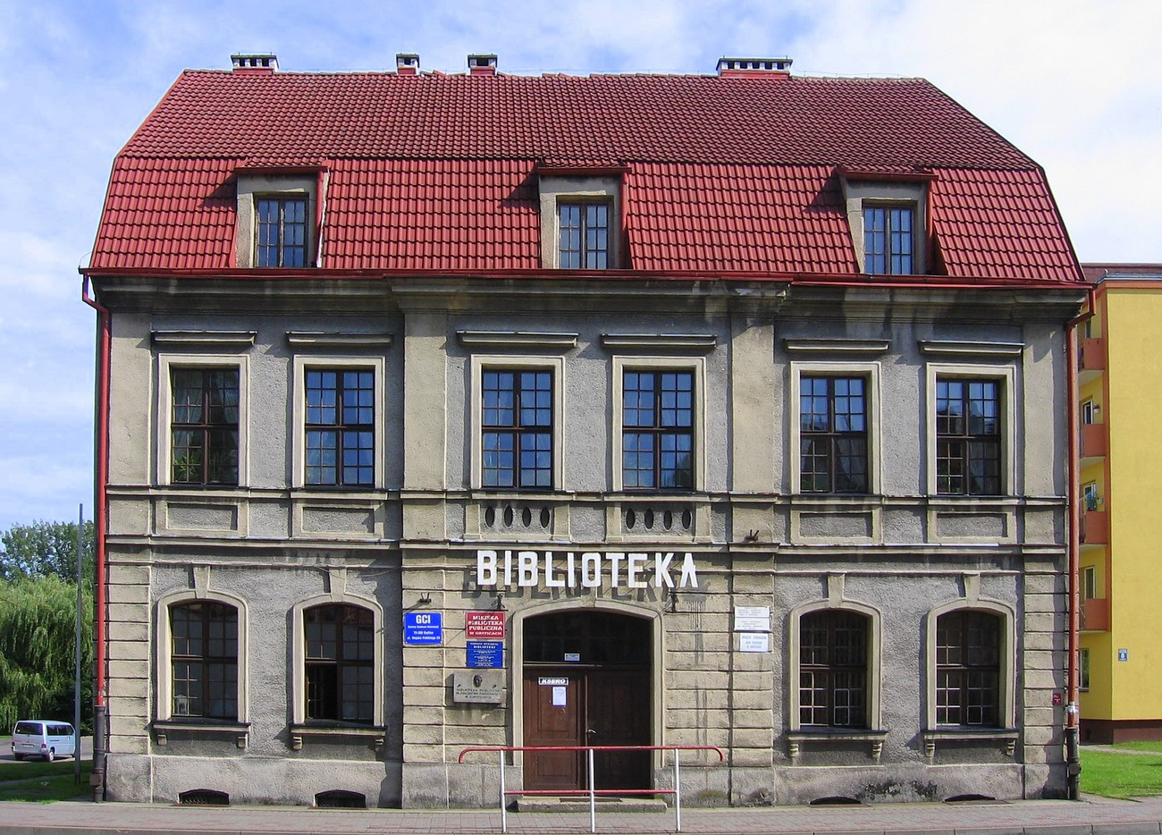 Public library in Gryfice, Poland